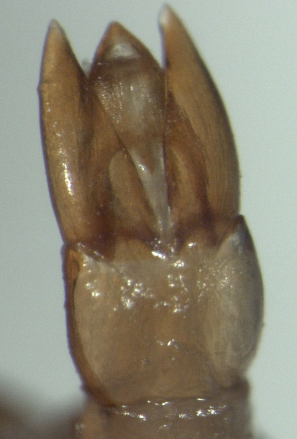 male aedeagus of Tormissus linsi (dorsal)